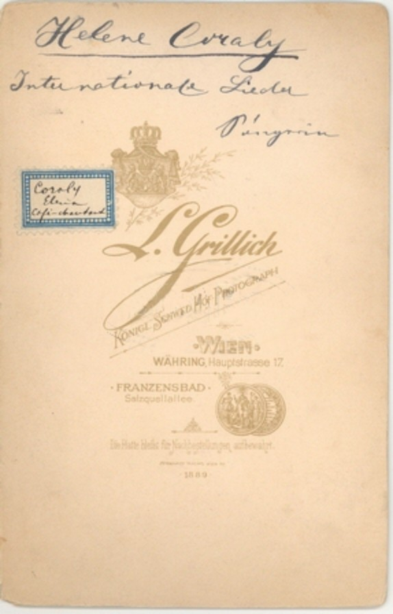 reverse side of Helene Coraly, albumina, 164x105 mm.